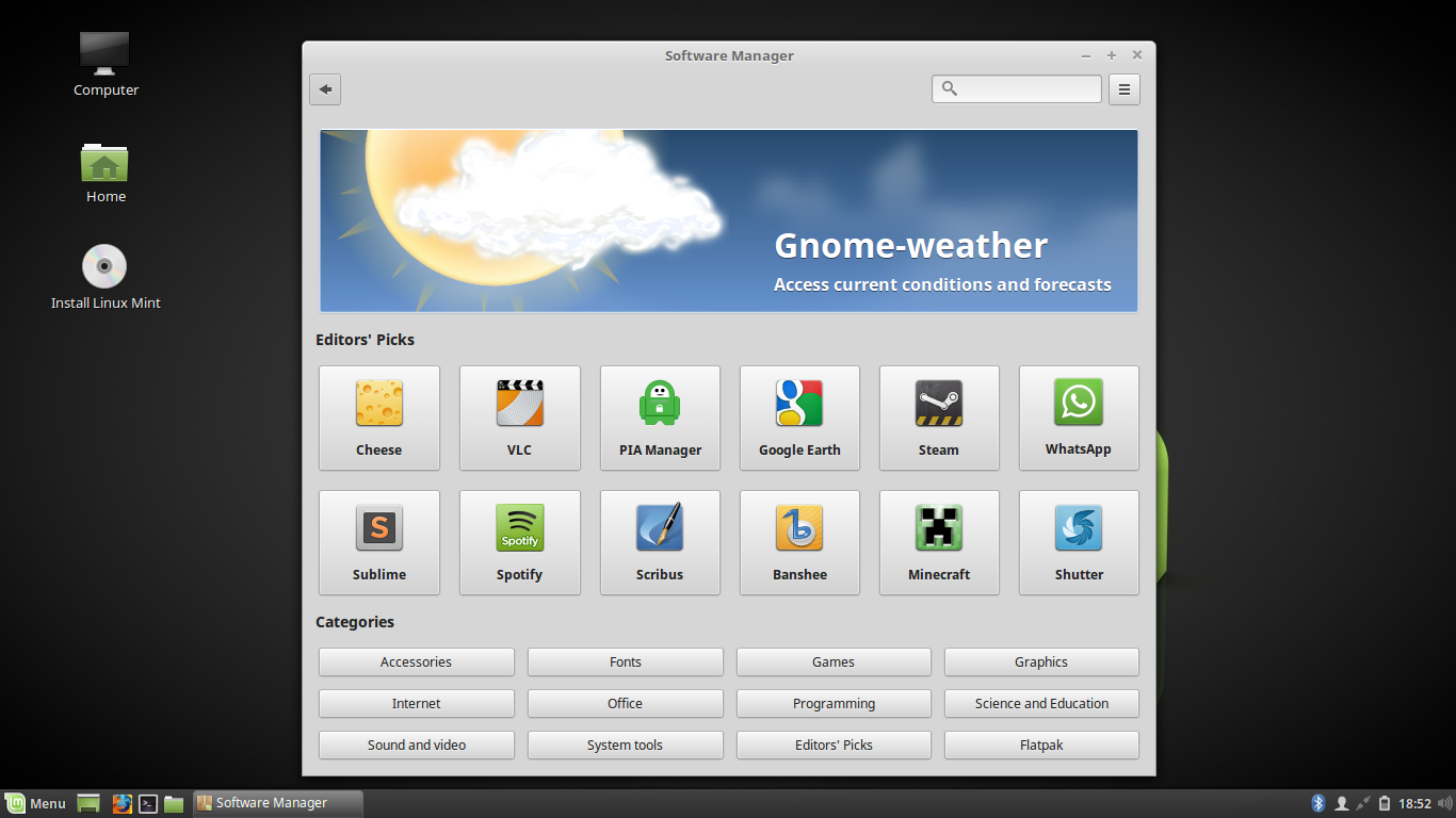 Linux Mint 18.3 Cinnamon Edition Desktop with Software Manager open. Theme: Mint X (default)